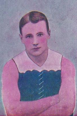 Cigarette card of Archie Snell from the 1905 Wills Past and Present Champions series.